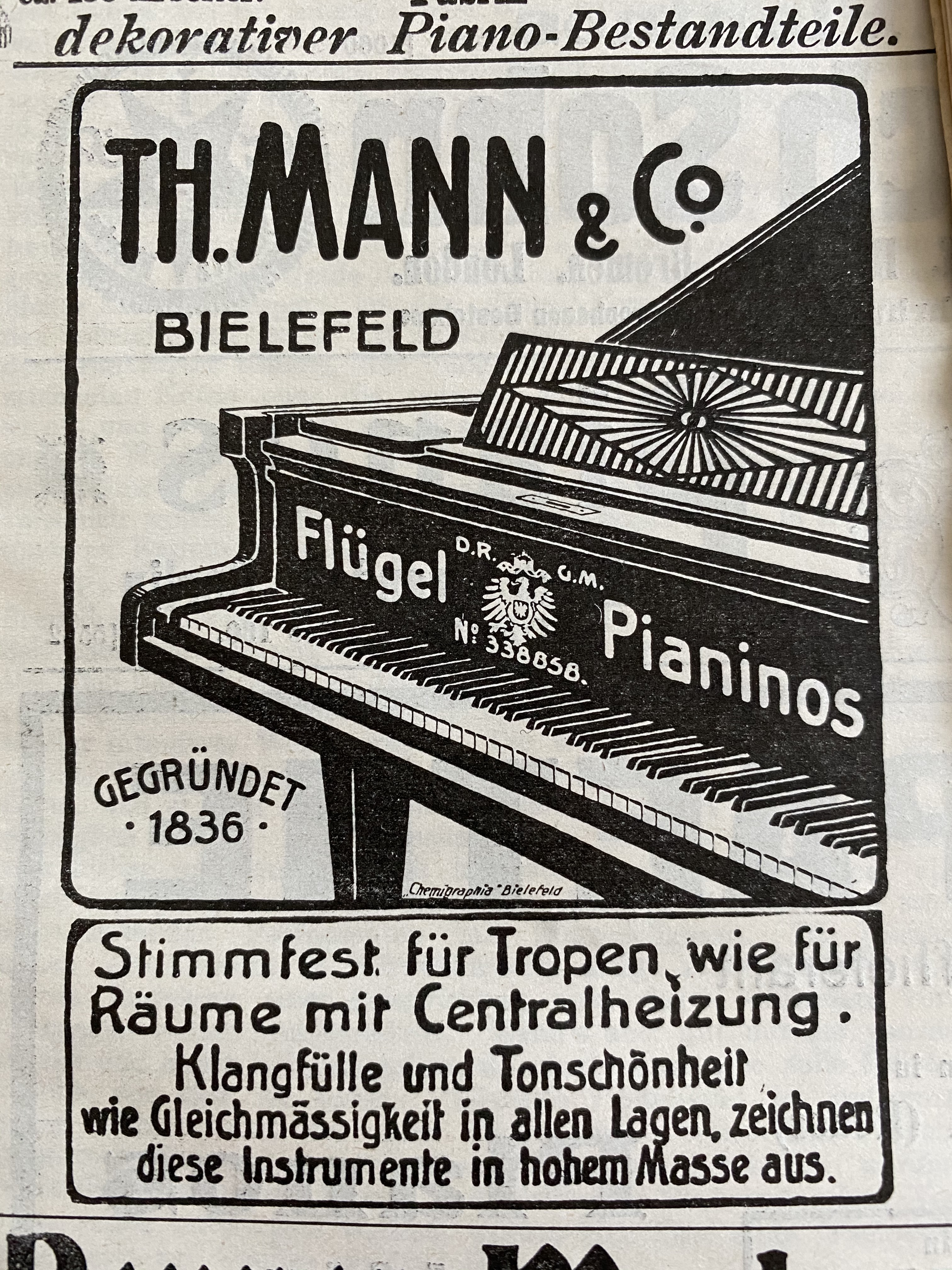 Advertisement for stalwart Grand Pianos by Th. Mann & Co. in Bielefeld. It was published in the Zeitschrift für Instrumentenbau in issue number 18, 21st of March 1911. The advertisement consists of two seperate blocks, surrounded each by a fine and in the corners rounded line. The upper block takes two thirds of the entire space and shows the front part of a Grand Piano. The lit is oben and there it reads: "Grand Pianos", followed by the prussian crest and in smaller font informations about a registered design patent and finished by "Upright Pianos". Name and location of the company "Th. Mann & Co., Bielefeld" can be read above the picture. In smaller letters beneath the picture it reads: "founded 1836". The second block consists only of text, which reads: "Robust tuning for tropics and rooms with central heating. These instruments are characterized by sonority and tonal beauty as well as uniformity in all situations."